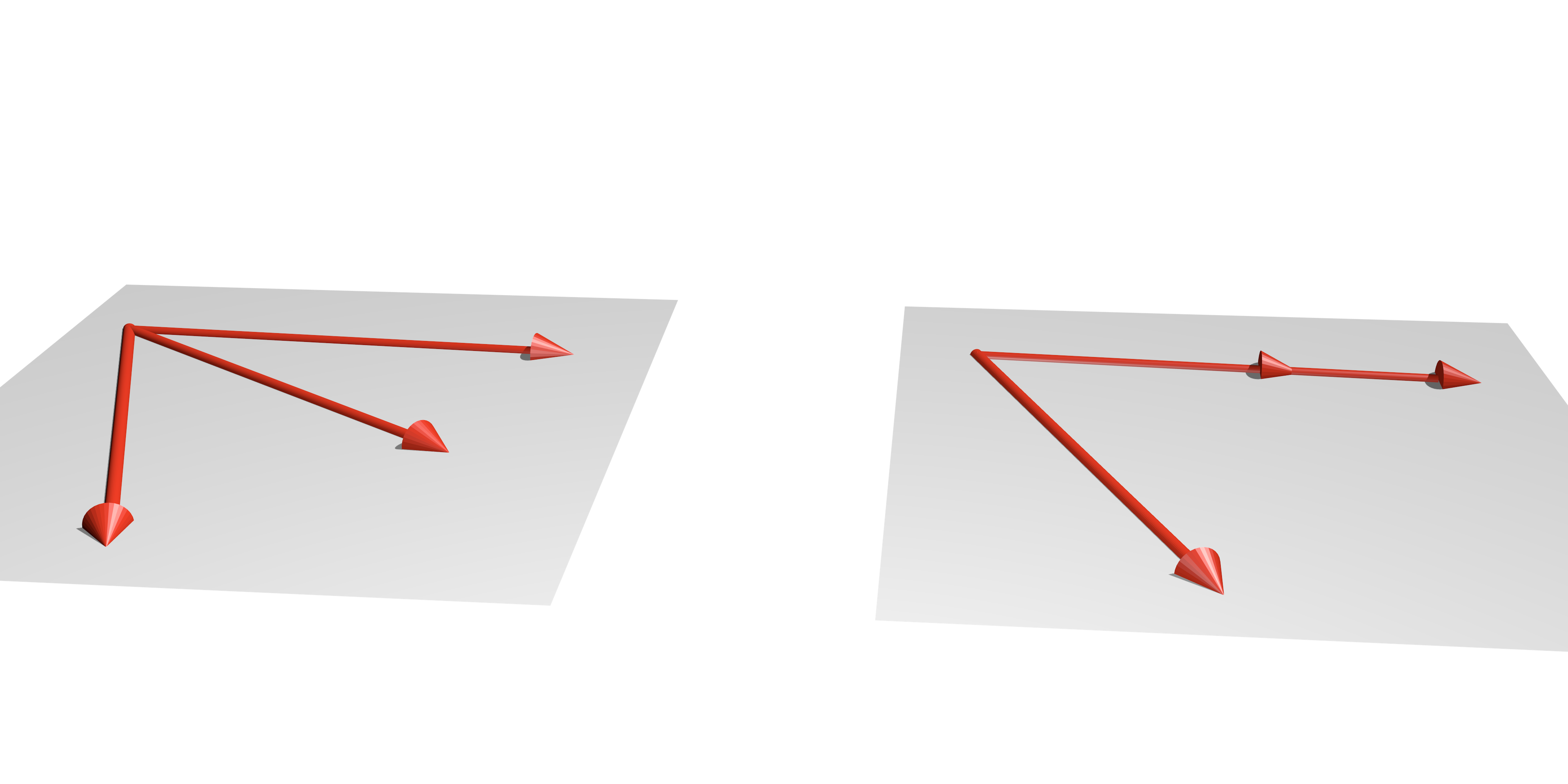 Linearly dependent vectors in R3 - 3D Visualisation